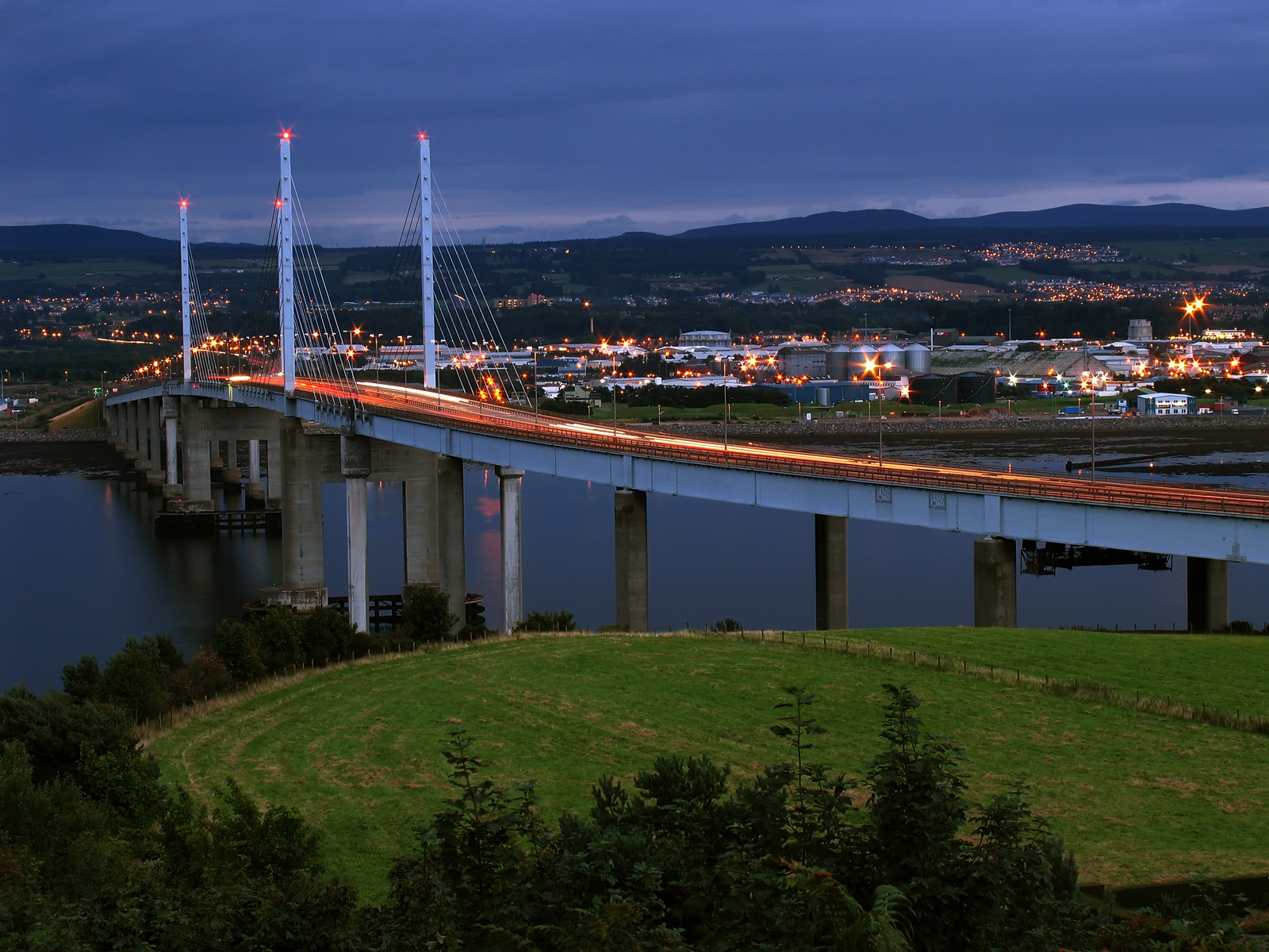 Title: Evening at the Kessock Bridge, Inverness Photographer: Tim Riches Date of photo: 25 August, 2006 URL